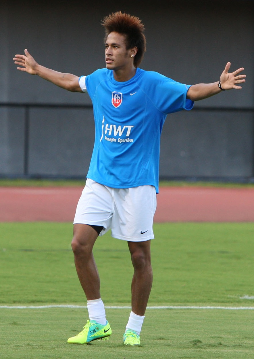 Neymar celebrating scoring for 'Friends of Neymar' while playing against 'Seleção Bahia'.